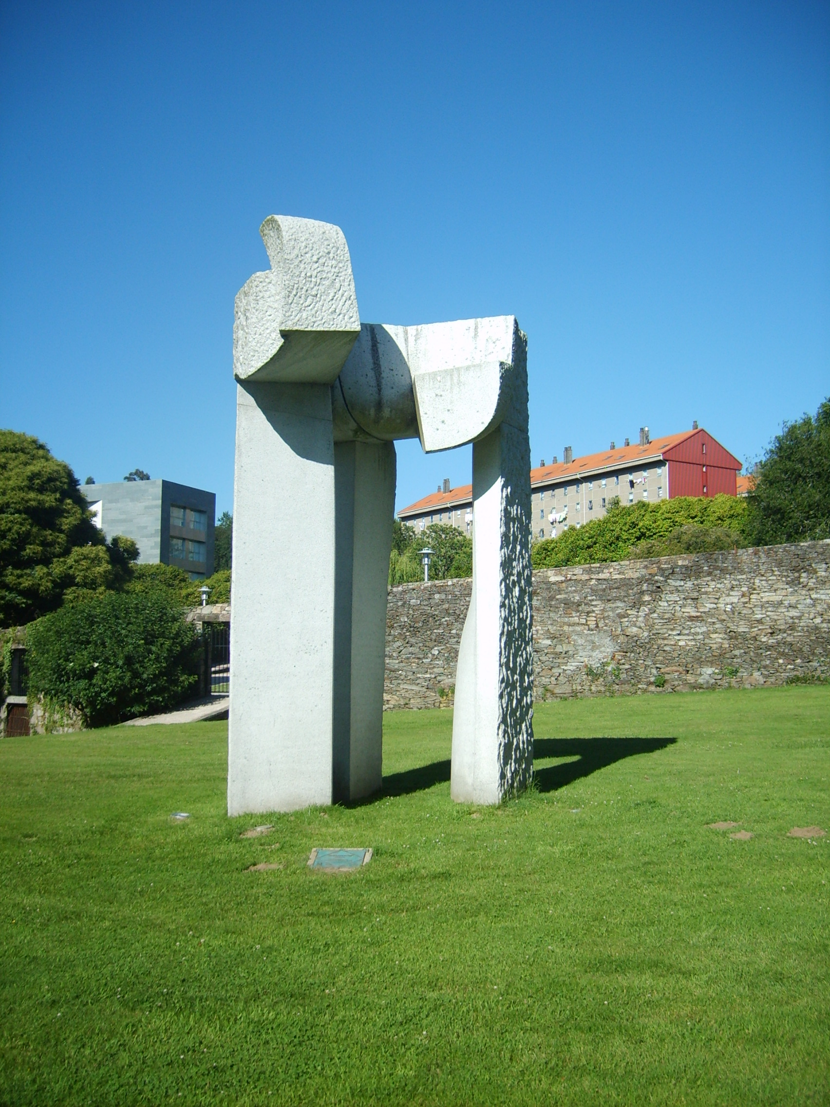 Dolmen Novo Milenio (New Millenium Dolmen), sculpture by Silverio Rivas, year 2000. It is located in the Parque da Música (Music Park), in front of the Auditorio de Galicia. Santiago de Compostela, Galicia, Spain.